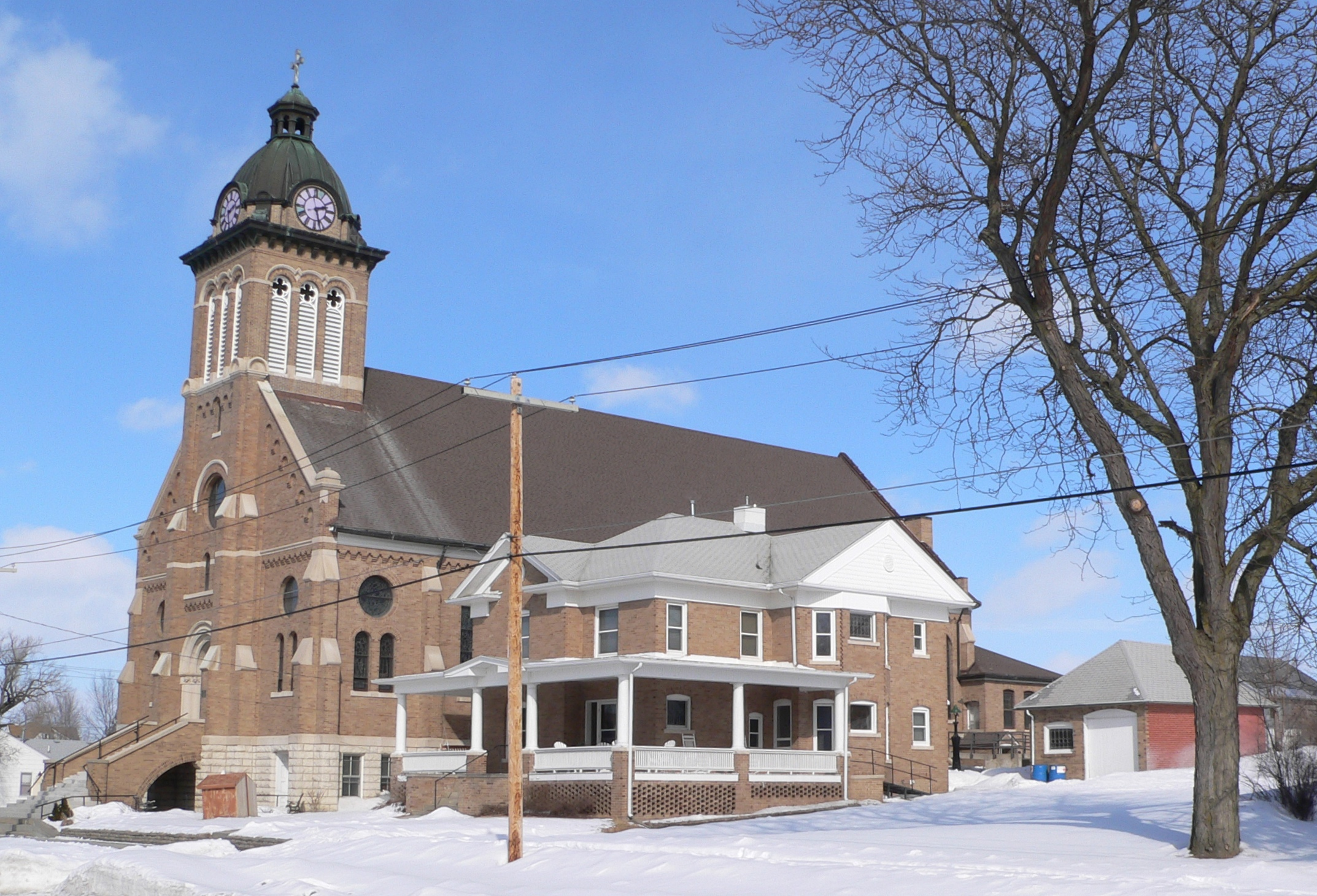 St. Leonard's Catholic Church complex in Madison, Nebraska; seen from the southwest. The complex consists of the three buildings shown: the church; the rectory in the foreground; and the garage, partly concealed by the tree at right. The church was designed in Romanesque Revival style by architect Jacob M. Nachtigall, and built in 1913. The rectory was designed in Neoclassical Revival style, and built in 1911-12. The garage was built in 1912-13. The complex is listed in the National Register of Historic Places.